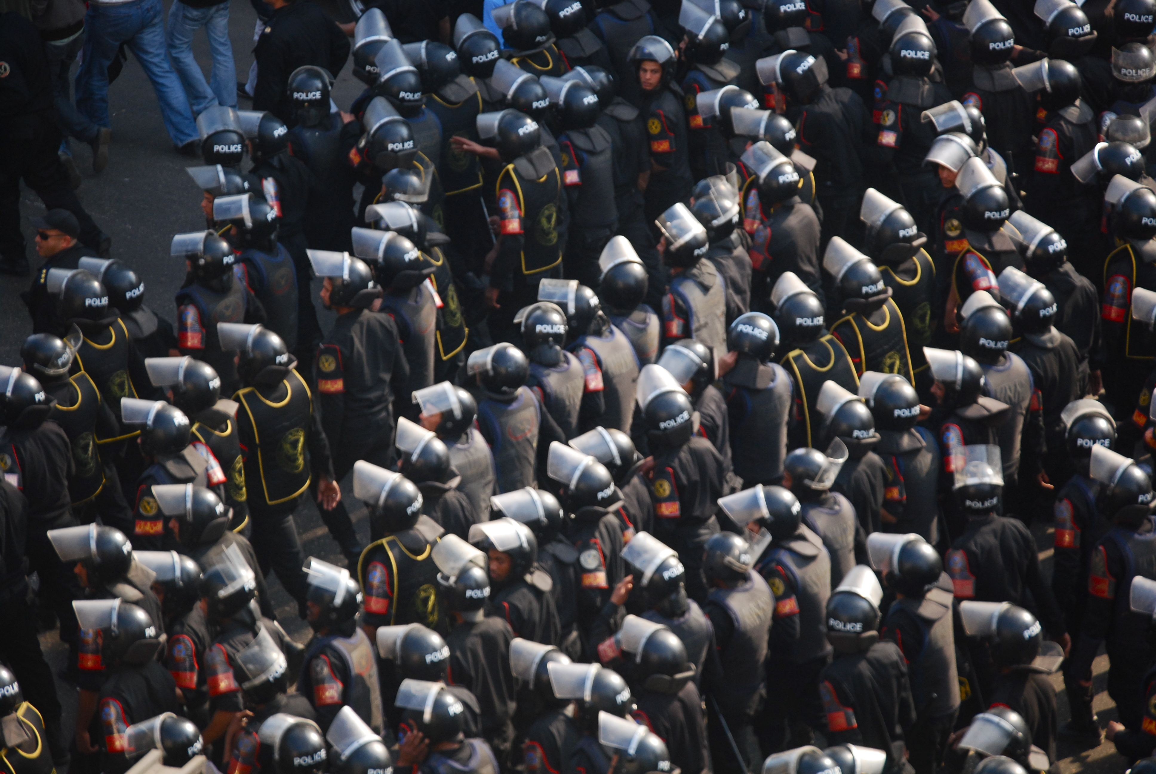 Rows of Egyptian Central Security Forces quelling 2011 Egyptian Protests in the Day of Anger 25th of January, 2011.